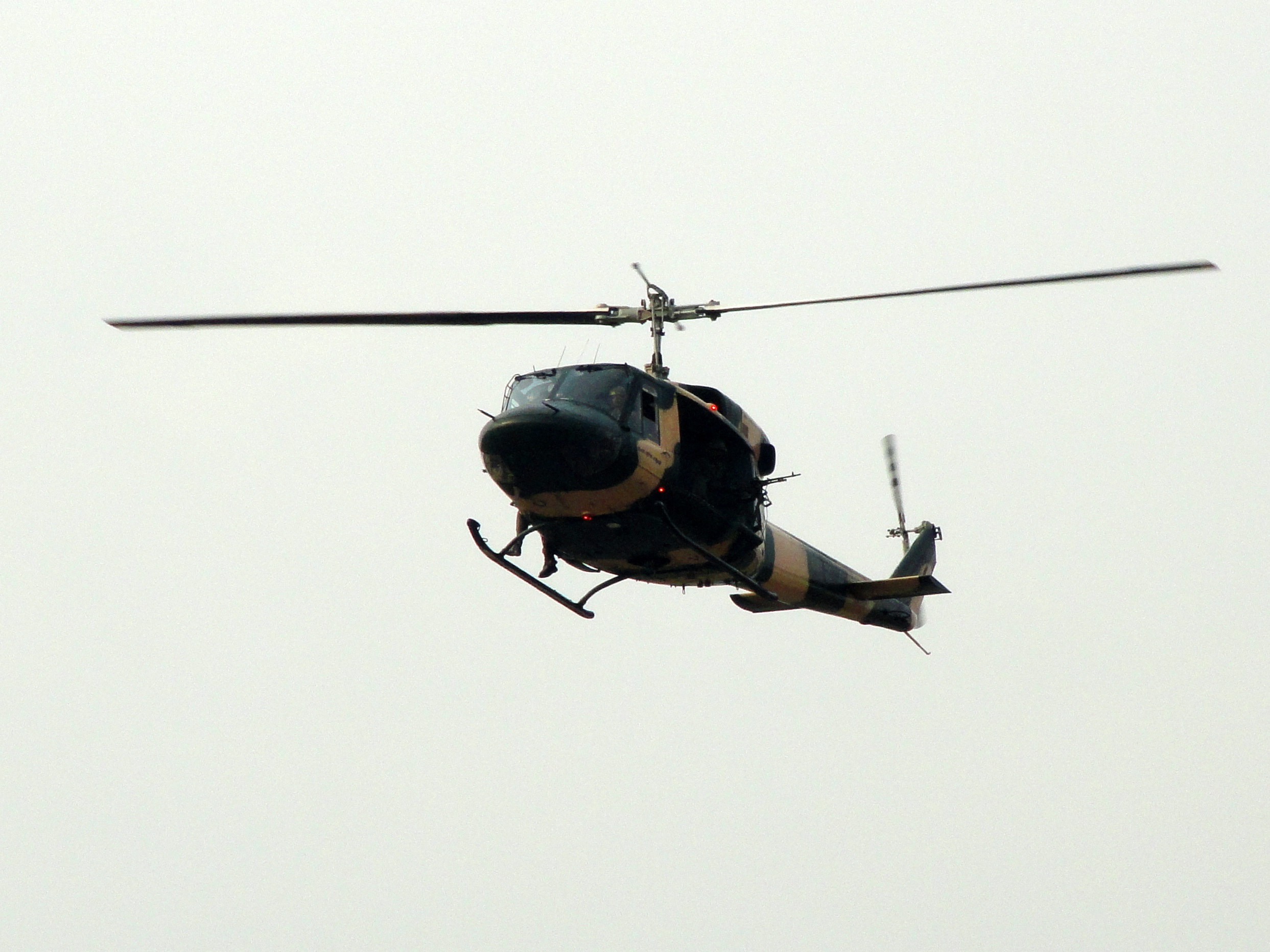 Bell 212 of the Sri Lanka Air Force, in Ratmalana, Sri Lanka.